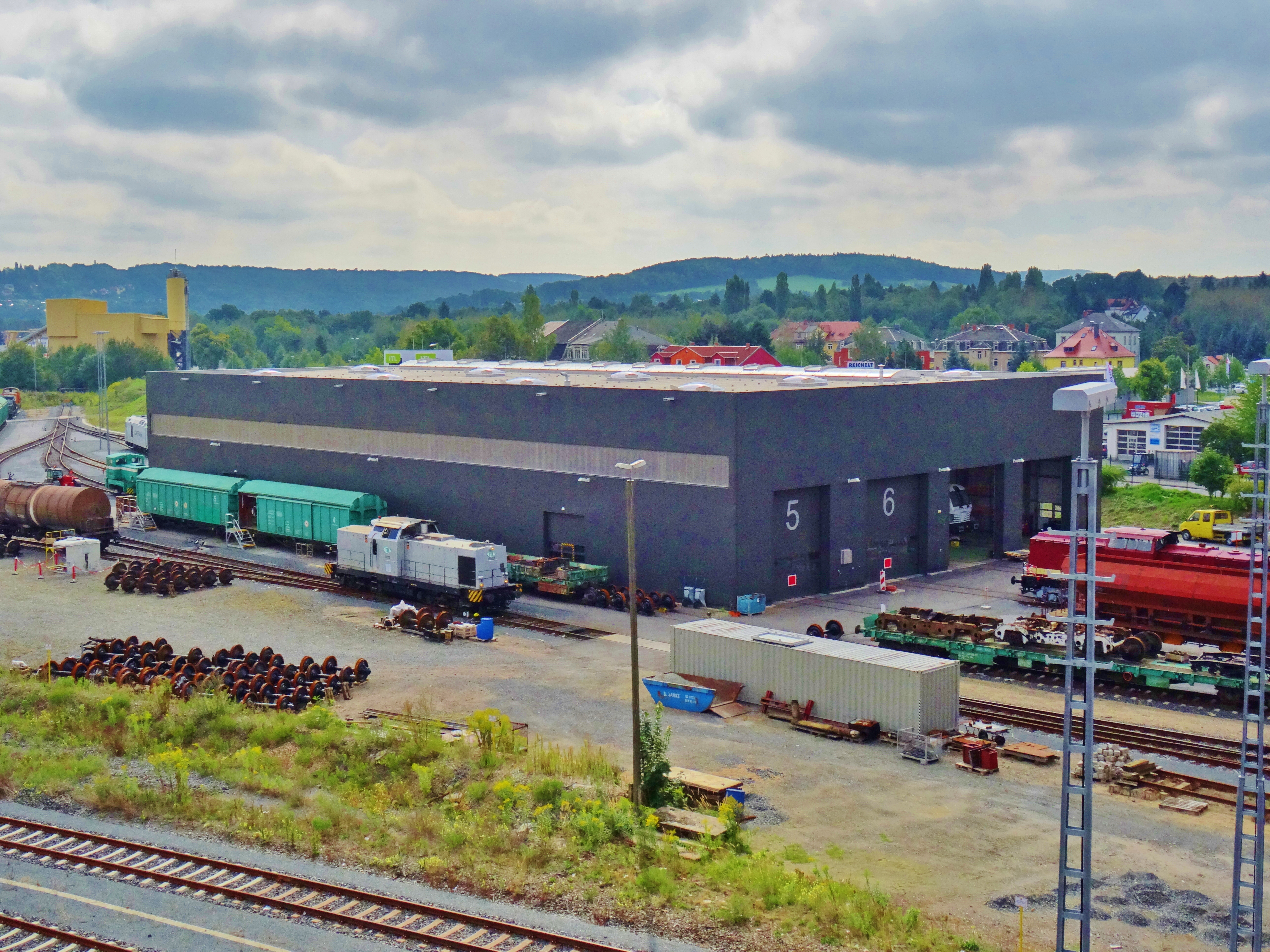 Railroad Logistics of Pirna